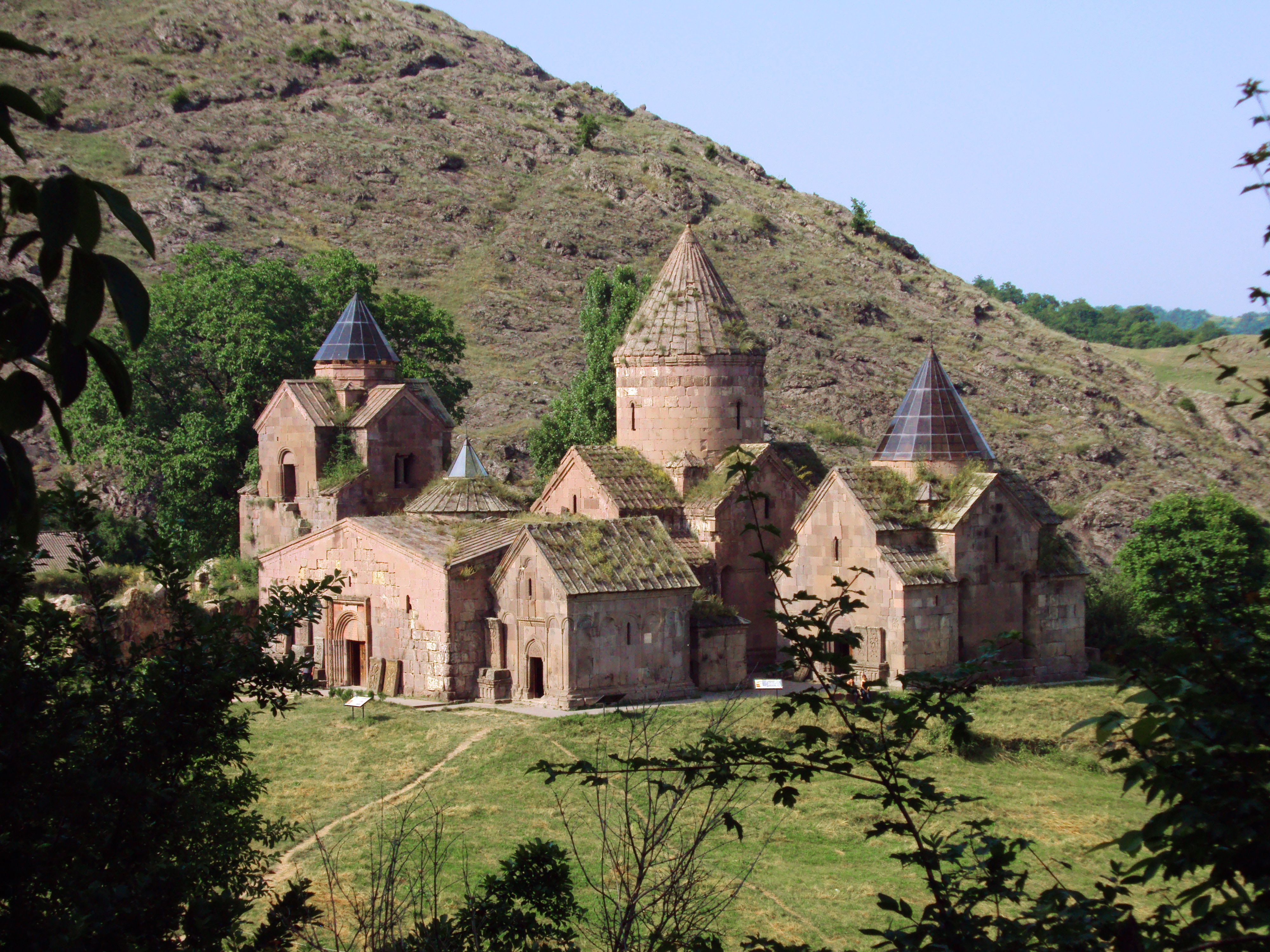 Monastery complex Goshavank (Nor Getik) 12-13c. located in the village of Gosh in the Tavush Province of Armenia. Founded by Mkhitar Gosh.